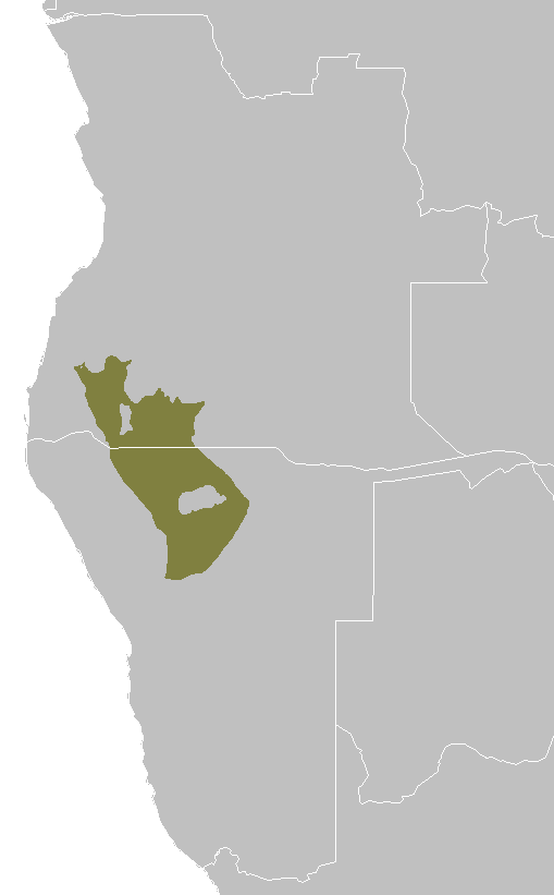 Angolan Mopane woodlands ecoregion map